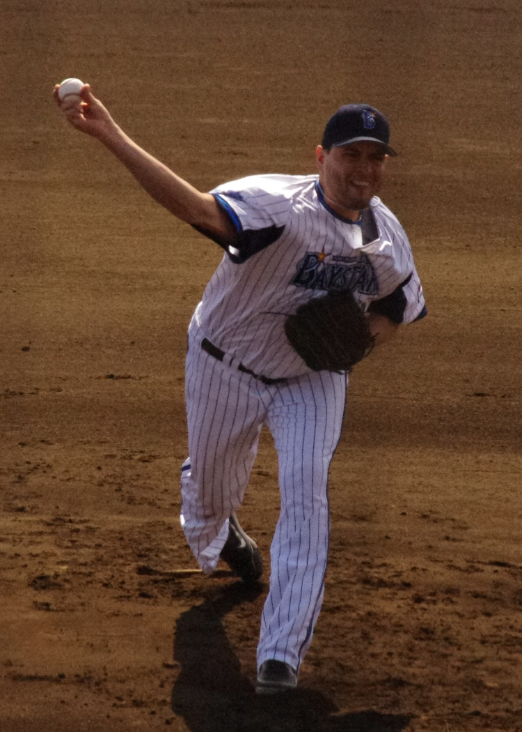 Giancarlo Alvarado, pitcher of the Yokohama DeNA BayStars, at Hiratsuka Baseball Stadium.